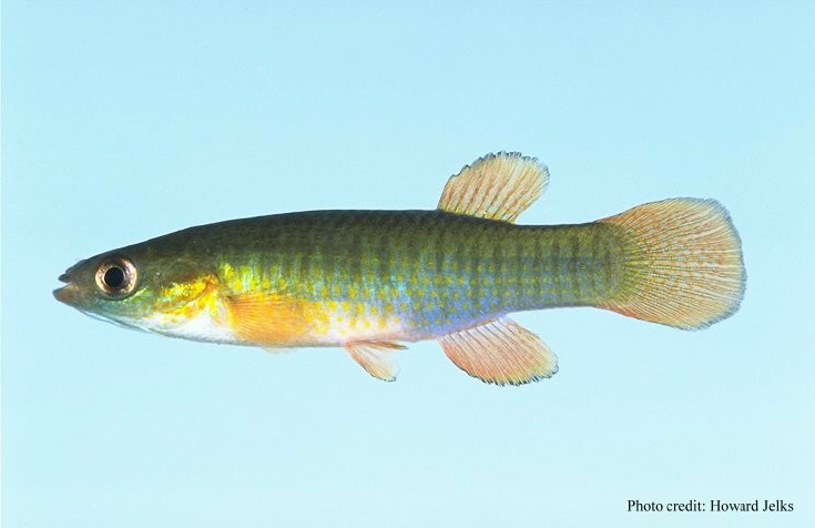 Banded Topminnow, Fundulus cingulatus Valenciennes, 1846